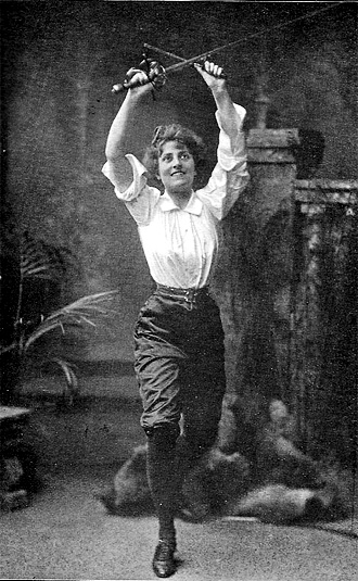 Esmé Beringer, Victorian actress and fencer